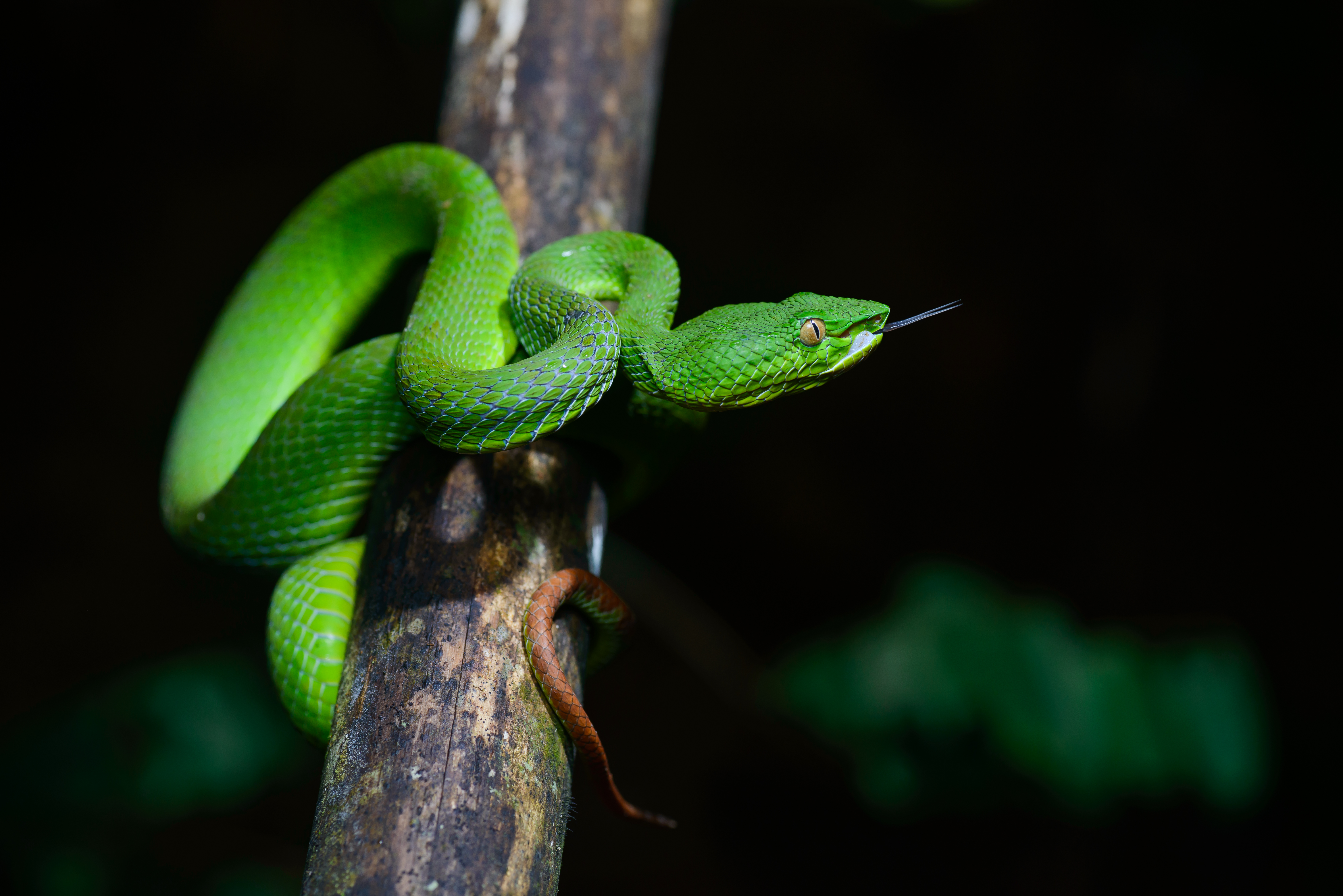 Trimeresurus fucatus, Banded pit viper - Khao Sok National Park.